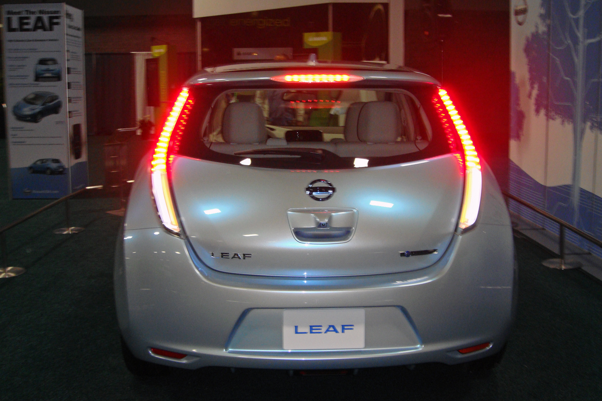 Rear fascia of the Nissan Leaf exhibited at the 2010 Washington Auto Show (D.C.)